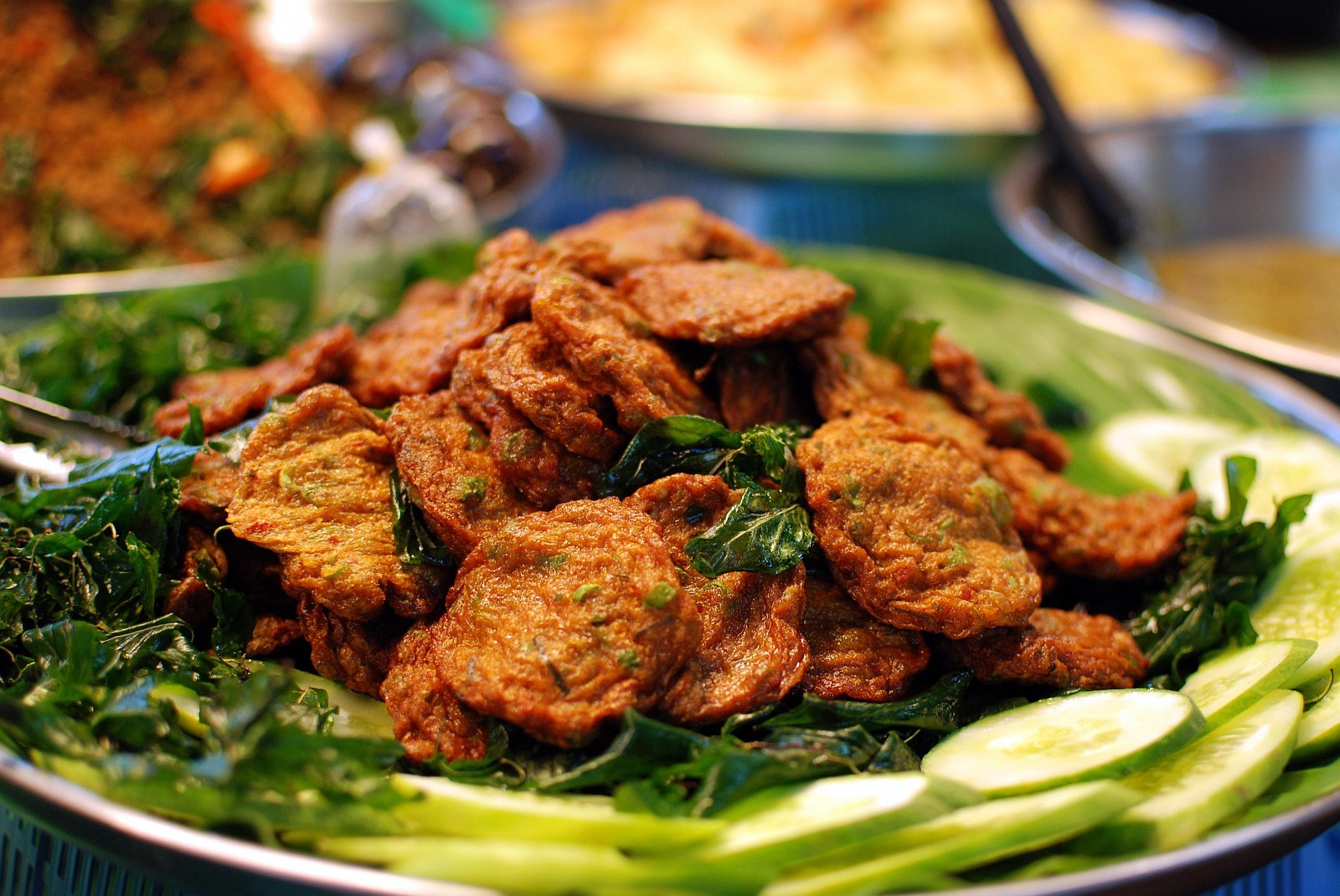 Thot man pla (Thai: ทอดมันปลา): A large heap of fried fish cakes (each about 5 centimetre in diameter) sold at Thanin market, Chiang Mai, Thailand. Thot man pla is made by deep frying small patties of minced fish (most often plakrai) mixed with red curry paste, finely chopped yardlong beans (tua fak yao, Thai: ถั่วฝักยาว), and finely shredded kaffir lime leaves (bai makrut, Thai: ใบมะกรูด). The same recipe with minced prawns, instead of fish, will make you thot man kung (Thai: ทอดมันกุ้ง). The fried leaves seen in the photo are those of Thai holy basil (bai kraphao, Thai: ใบกะเพรา). Thot man pla is served with a sweet chilli dip sauce which normally contains diced cucumber and crushed peanuts. This dish can be eaten as a snack, a starter, or as one of the dishes in a Thai buffet style meal.